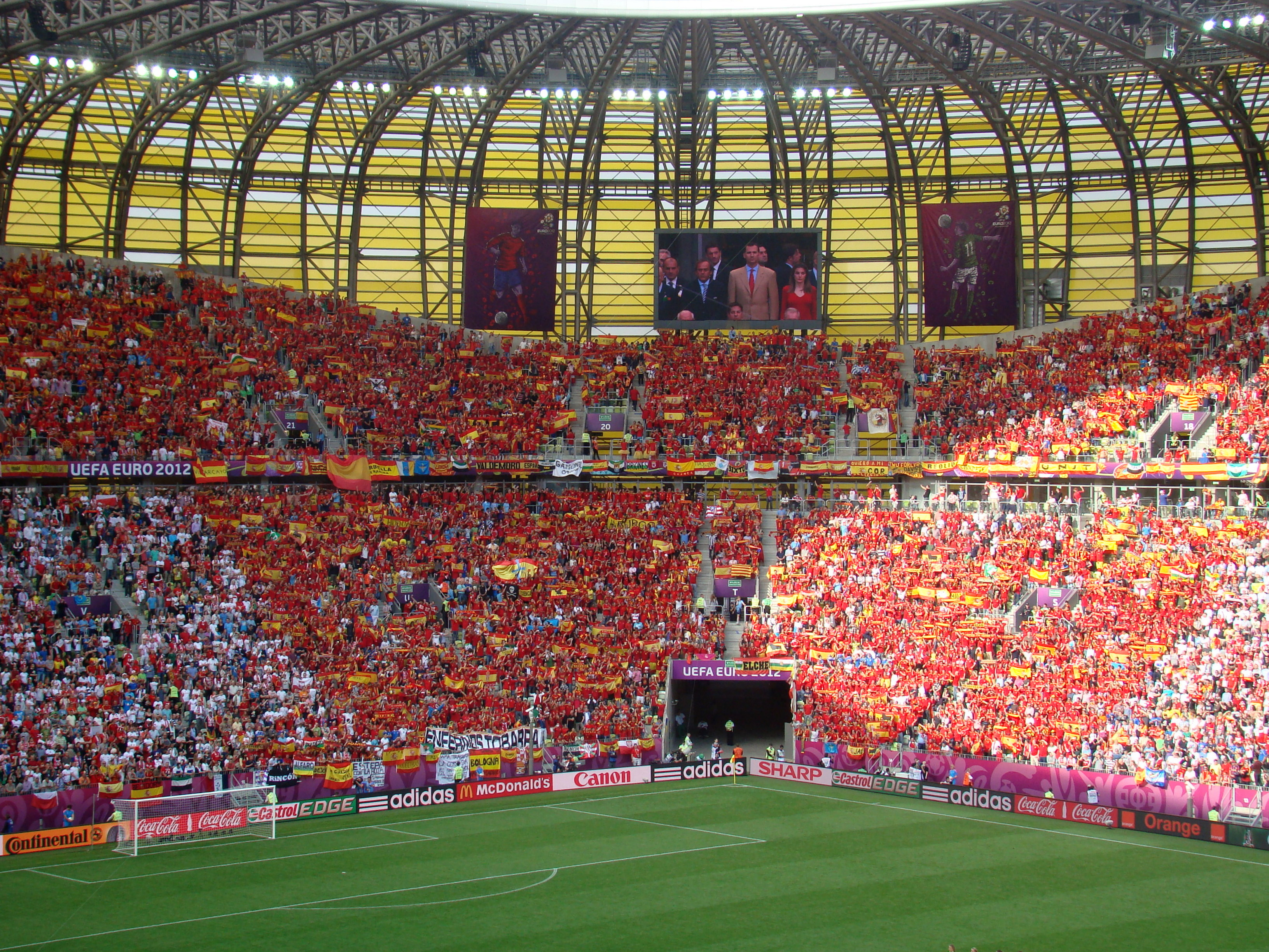 Sectors occupied by spanish supporters during the match against Italy in Gdańsk at Euro 2012